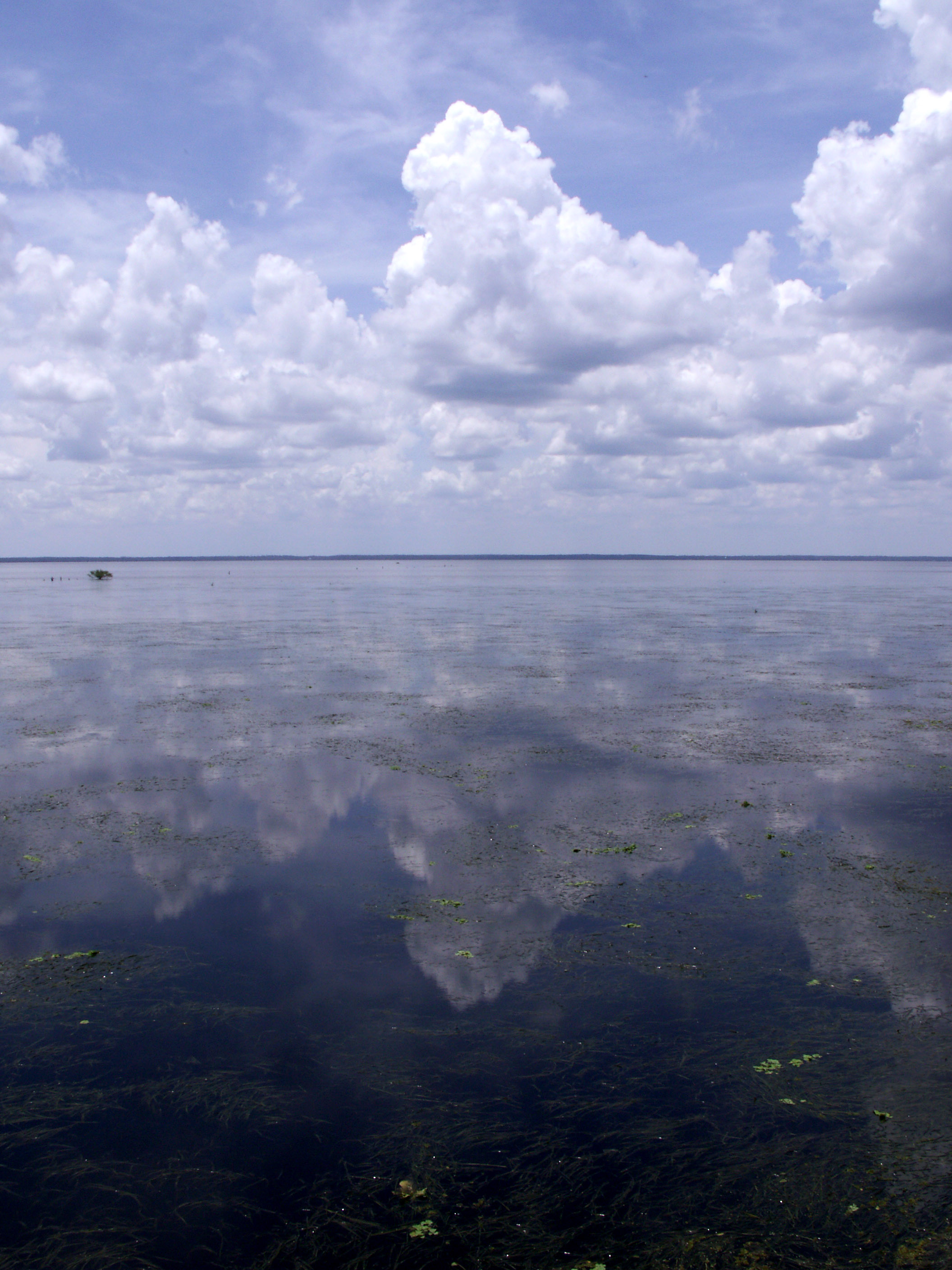 Lake George, Florida taken at Nine Mile Point